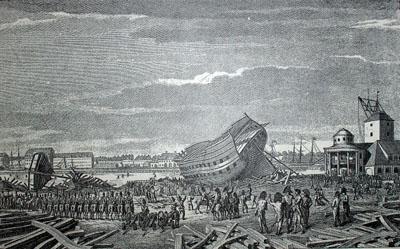 Bombardment of Copenhagen in 1807. The famous mastcrane on Holmen, Copenhagen can be seen.